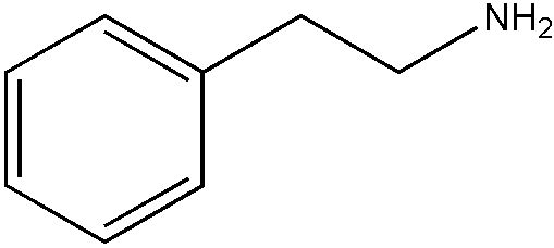 Description: Structure of phenethylamine Author, date of creation: selfmade by Hugo, August 06, 2006 Source: self-made Copyright: Public Domain (PD)